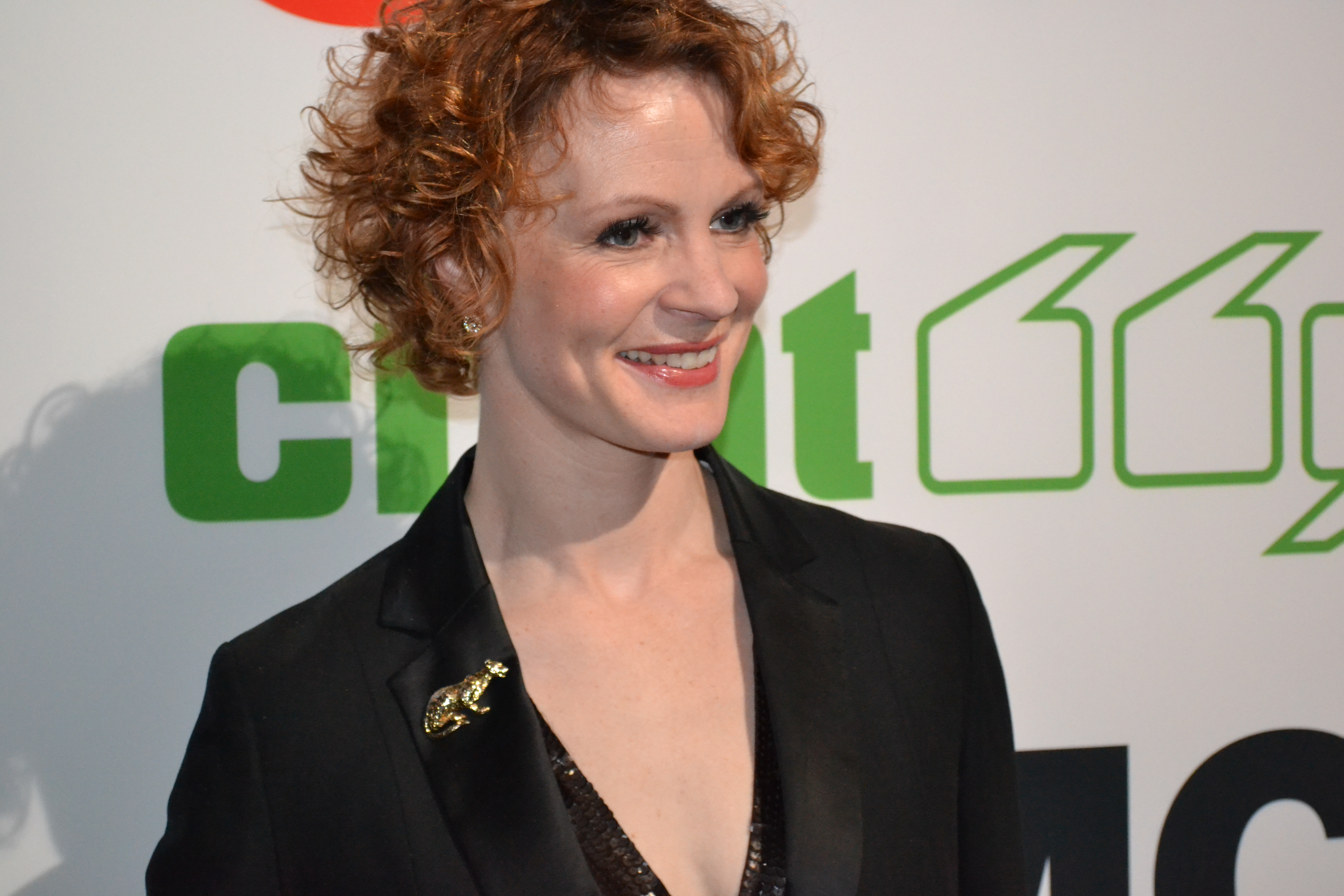 Minna Haapkylä in 2013 Jussi Awards.